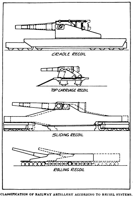 Diagrams showing the 4 main railway artillery recoil systems in use in the World War I era : Cradle recoil, Top Carriage recoil, Sliding recoil, Rolling recoil.